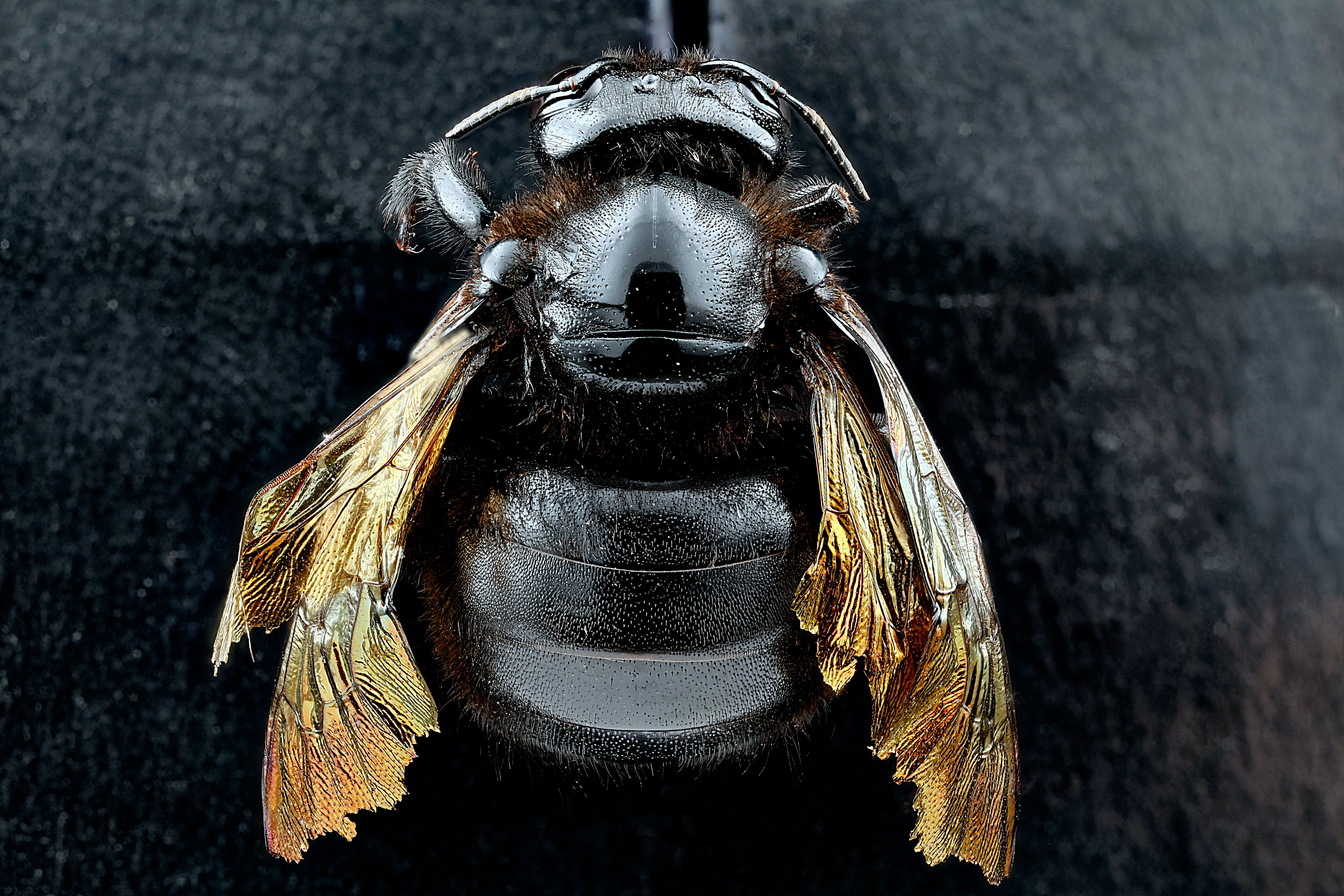 Xylocopa sonorina, Female, March 2012, Hawaii, Oahu